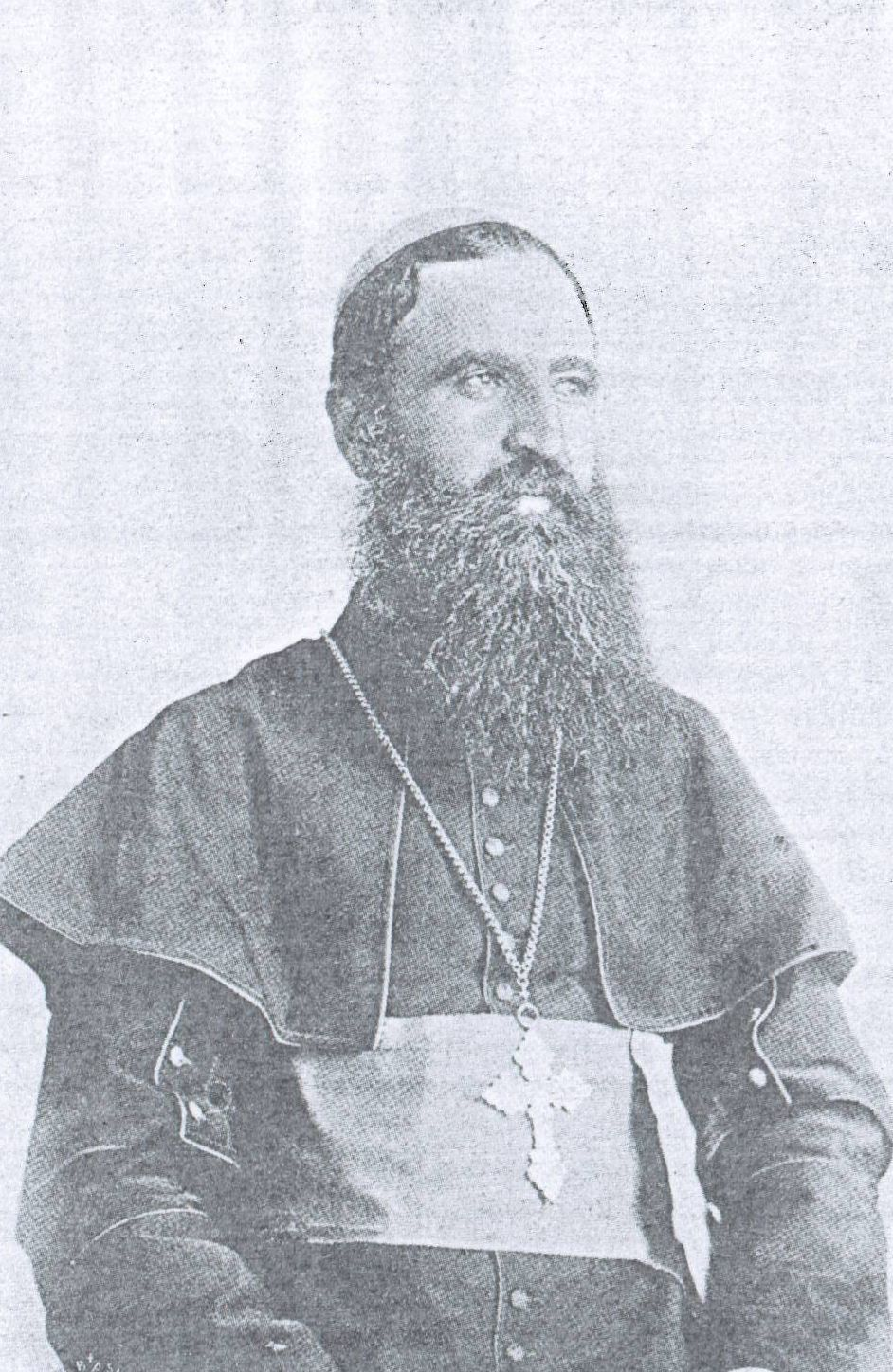 Mar Ignace Dionysius Ephrem II Rahmani (1848–1929), Patriarch of the Syrian Catholic Church from 1898 to 1929 and a Syriac scholar.